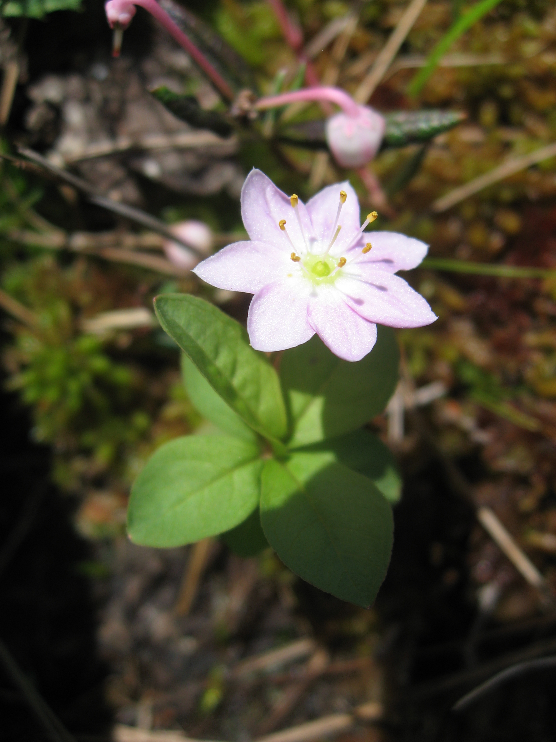 Trientalis europaea var. arctica,Aizu area,Fukushima pref.,Japan